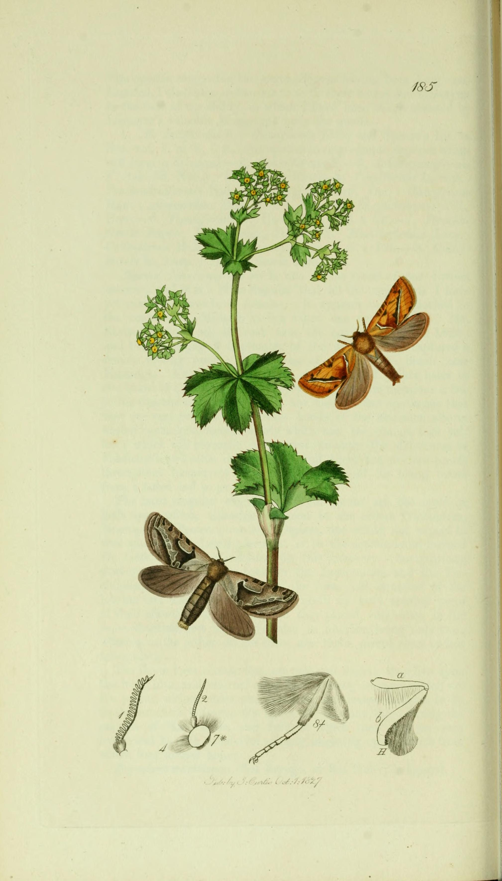 An illustration from British Entomology by John Curtis. Hepialus sylvinus or Hepialus sylvina or Triodia sylvina (Orange Swift, Wood Swift).